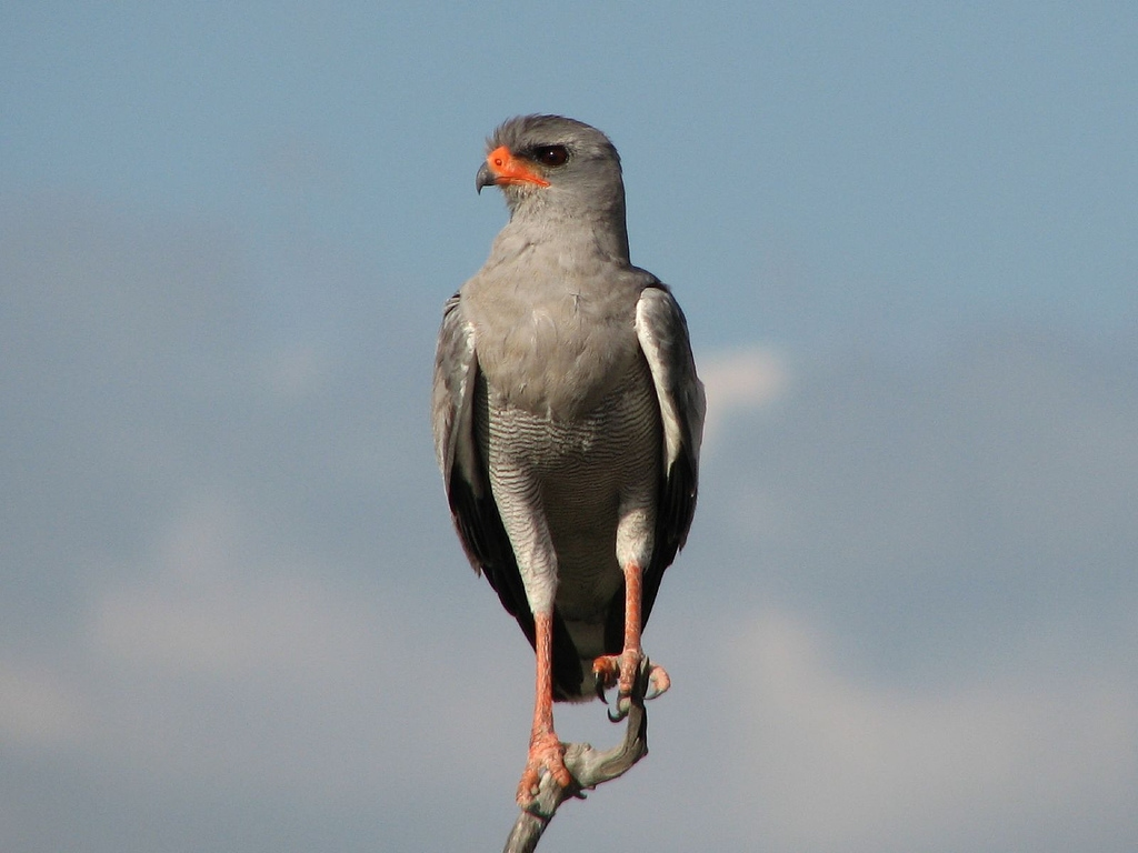 Pale Chanting Goshawk - Melierax canorus. Etosha National Park, Namibia.